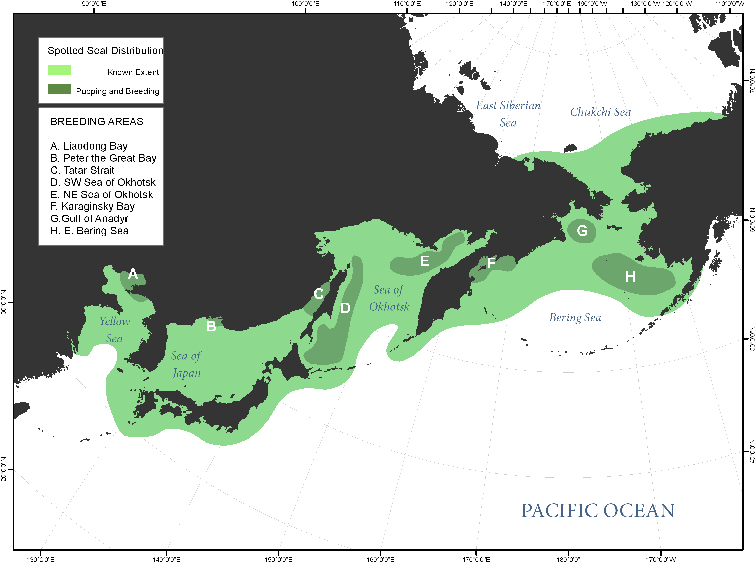 Spotted seal Phoca largha distribution in Bering Sea and surrounding areas.